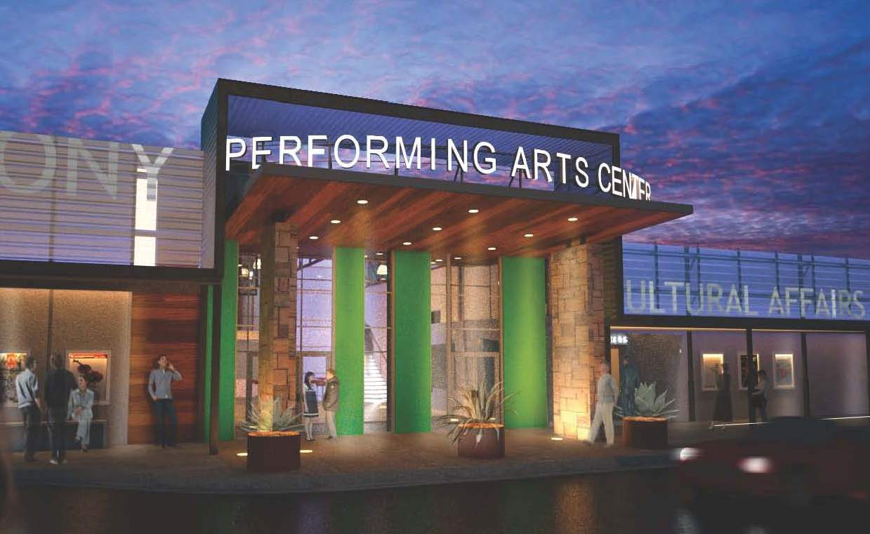 Rendering of the front entrance of the Stephens Performing Arts Center